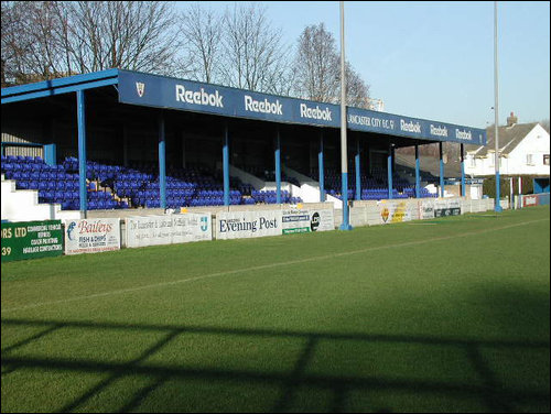 A view of the main stand